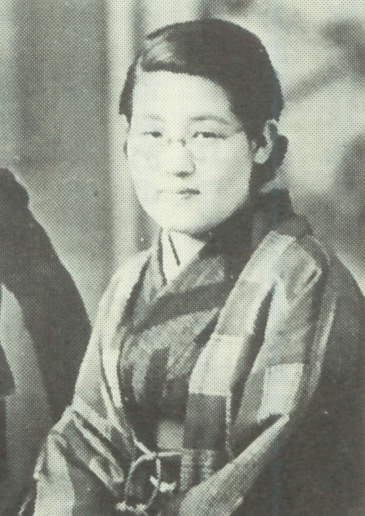 Shinoe Shōda (正田篠枝, Japanese, *1910, †1965)